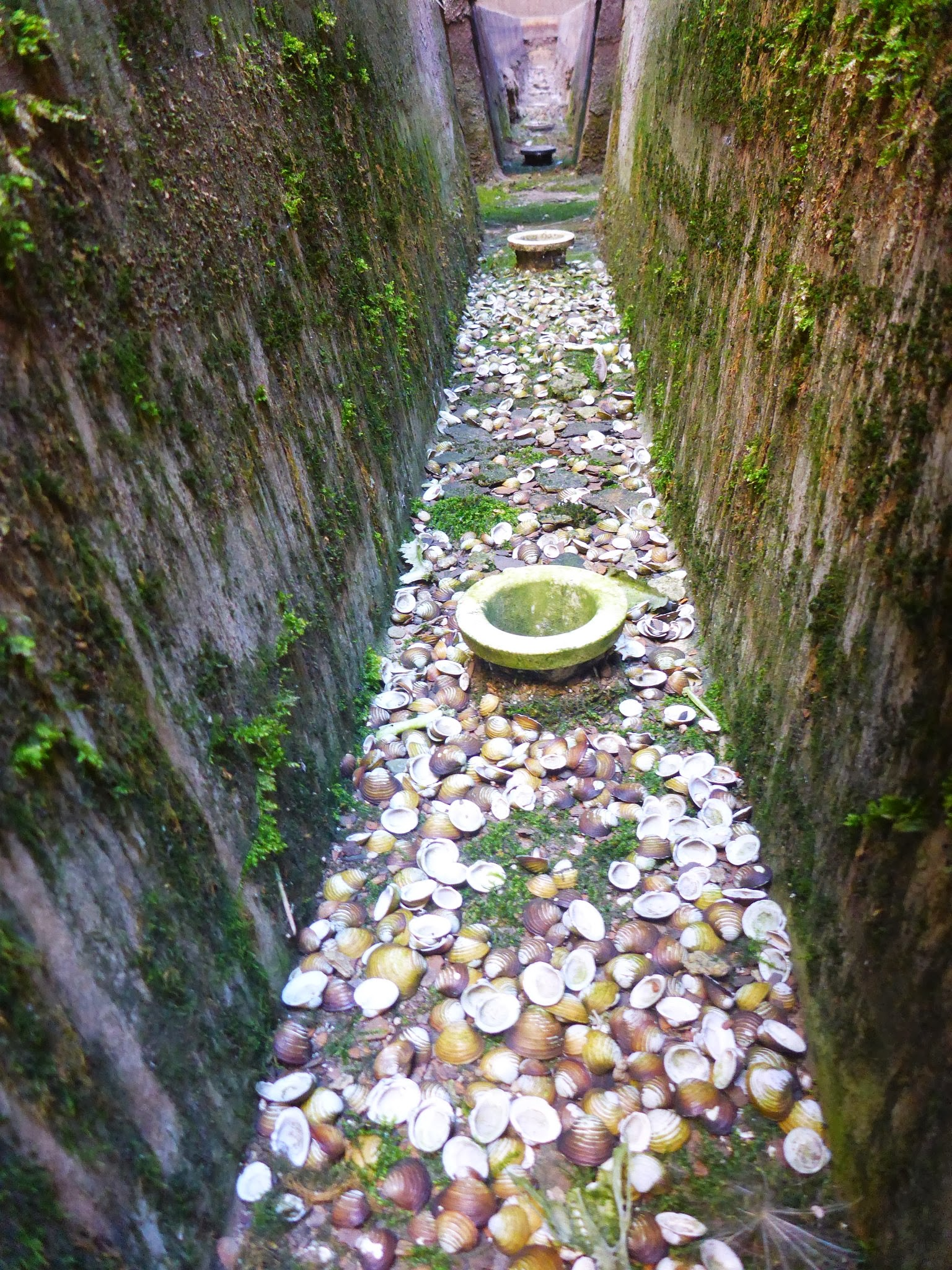 Remnants of dead individuals from a colony of Asian corbicles (species of bivalve, introduced and invasive molluscs with scientific name is Corbicula fluminea, in the water pipes of a cooling tower (in Charleroi, Belgium)